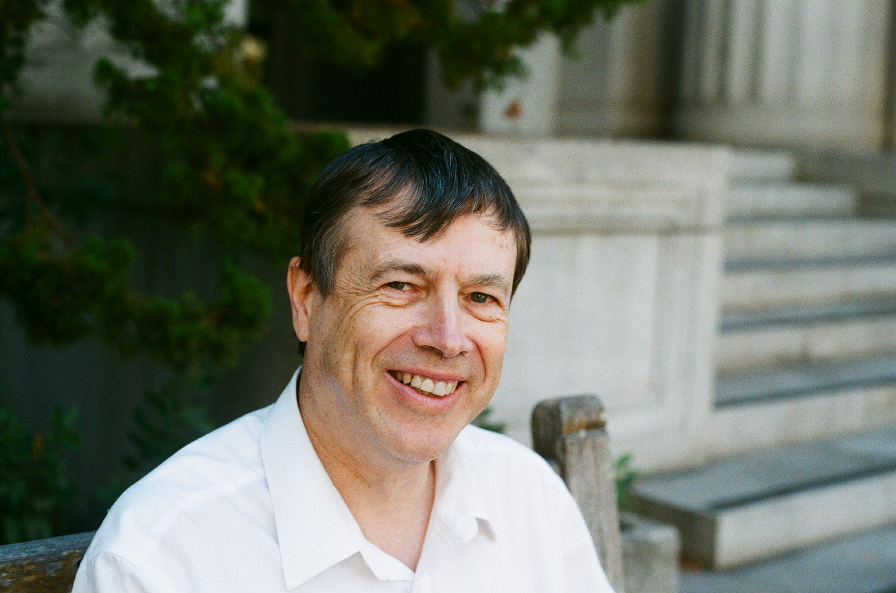 Photo of Jean Bourgain